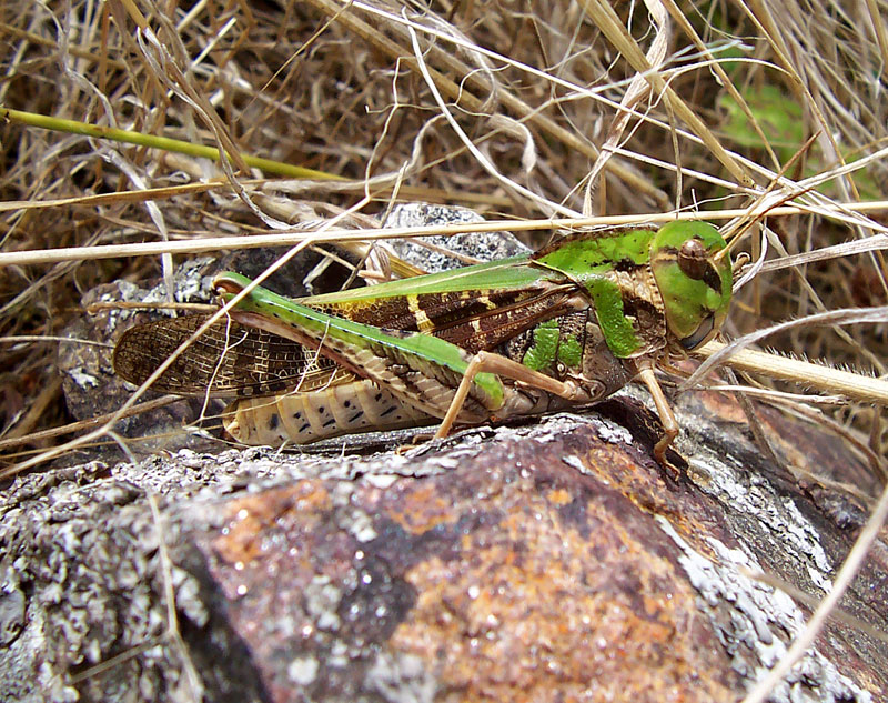 A green Australian grasshopper. Subject to disclaimers. Subject to disclaimers.